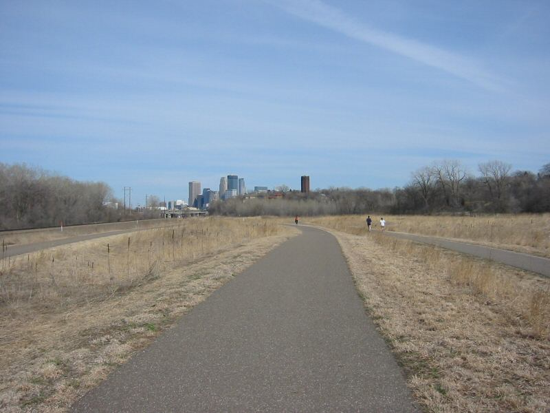 A look toward downtown Minneapolis along the Cedar Lake Trail.